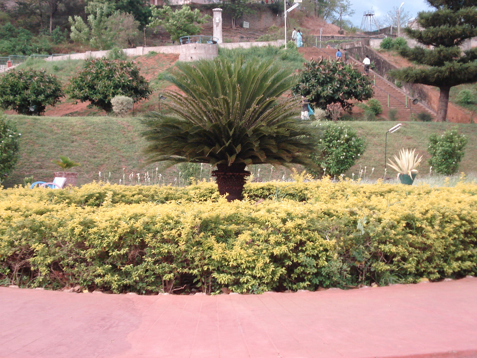 Snap from Malampuzha Garden, Malampuzha, Palakkad, Kerala, India